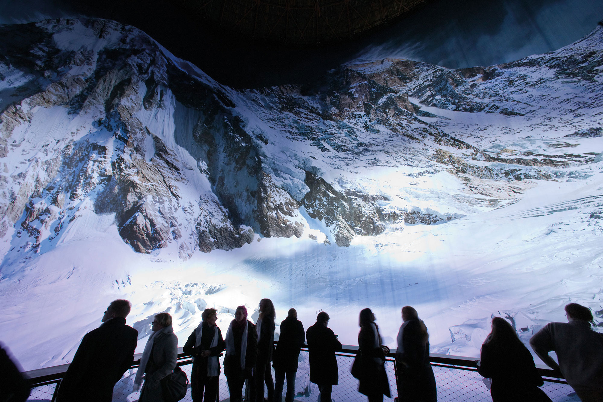 The icy world of the Himalayas in the Panorama EVEREST (c) asisi